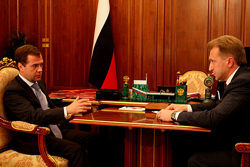 THE KREMLIN, MOSCOW. President Dmitry Medvedev meeting with First Deputy Prime Minister Igor Shuvalov.